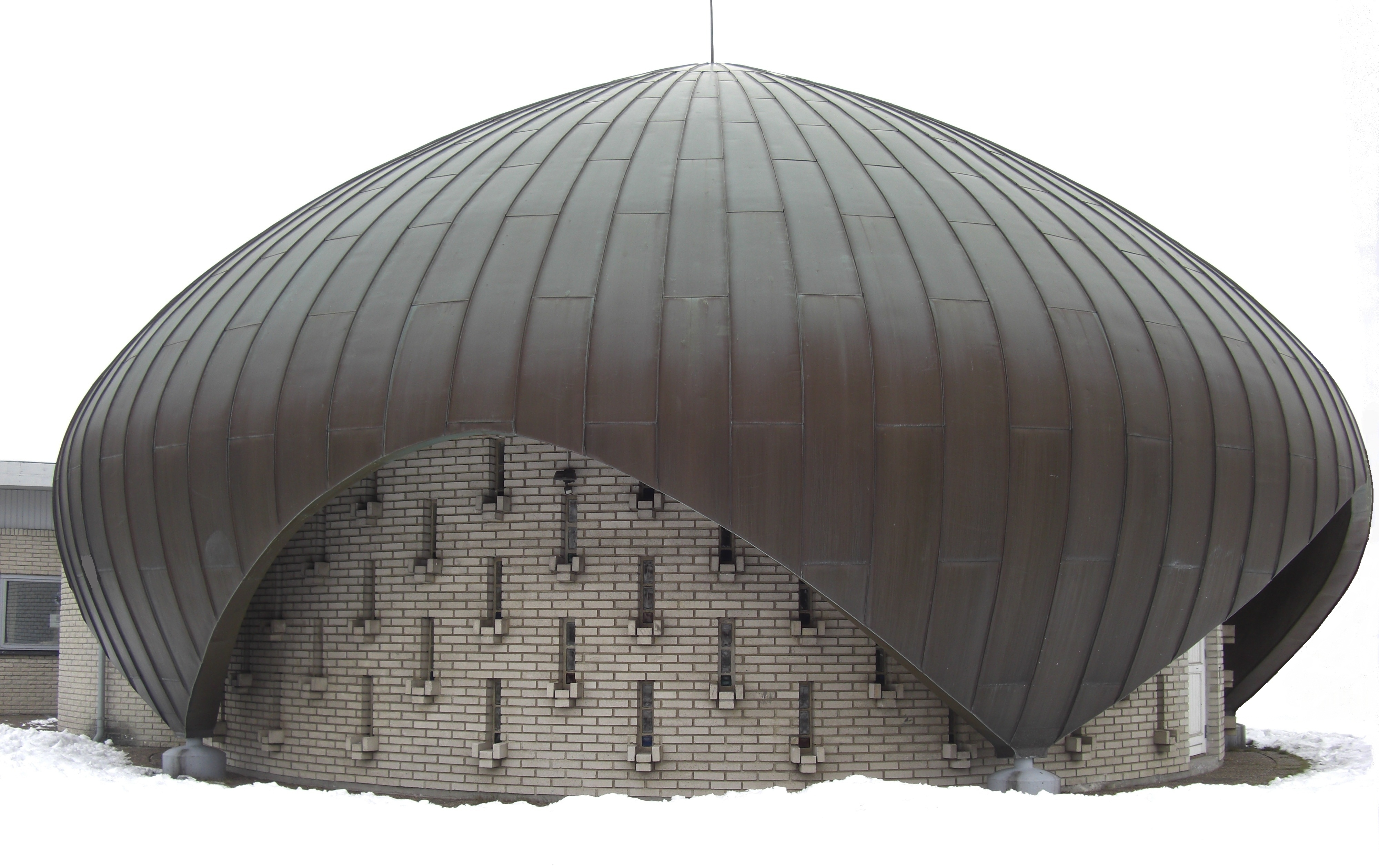 Picture of the Nusrat Djahan Mosque in Hvidovre at Copenhagen in the Kingdom of Denmark